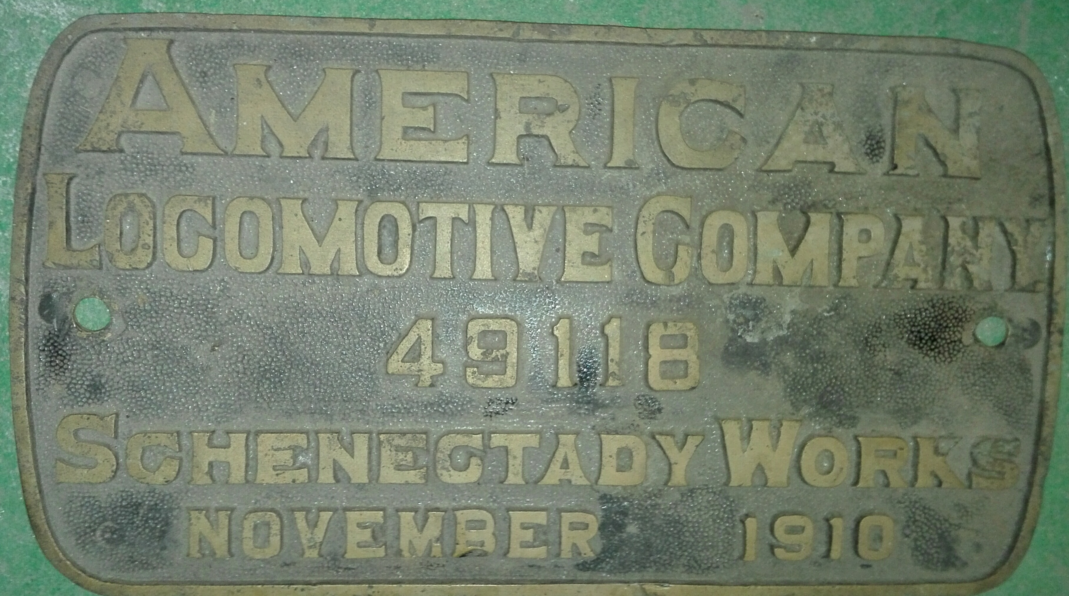 Mallet builders plate